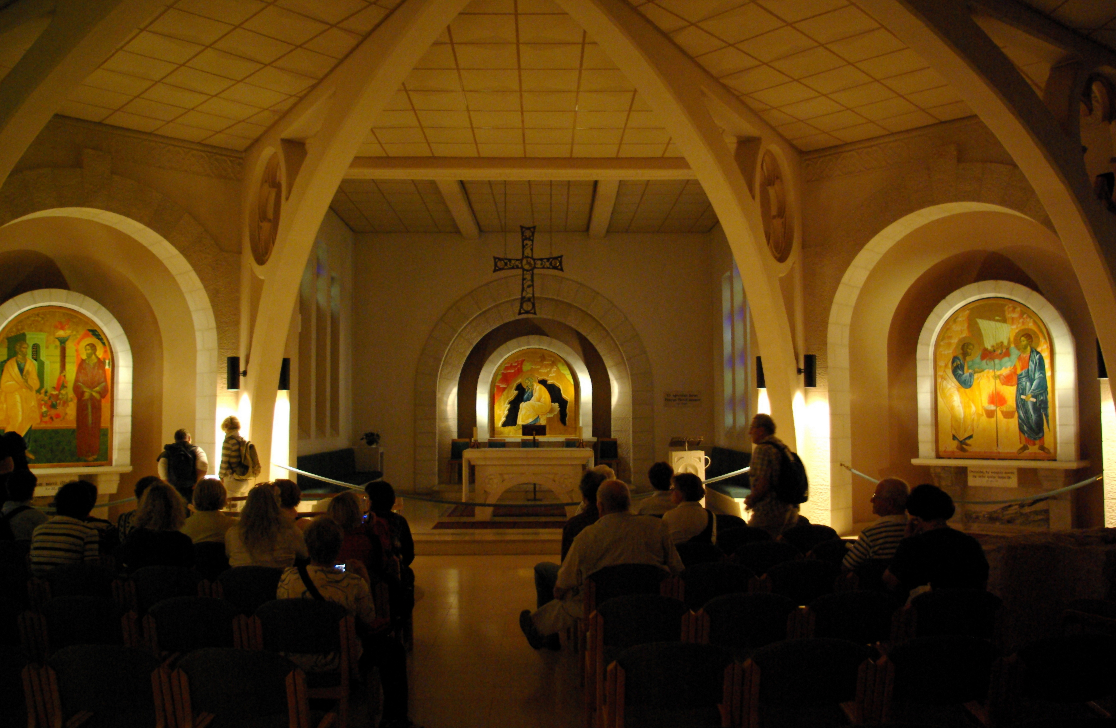 Jerusalem, St. Peter in Gallicantu